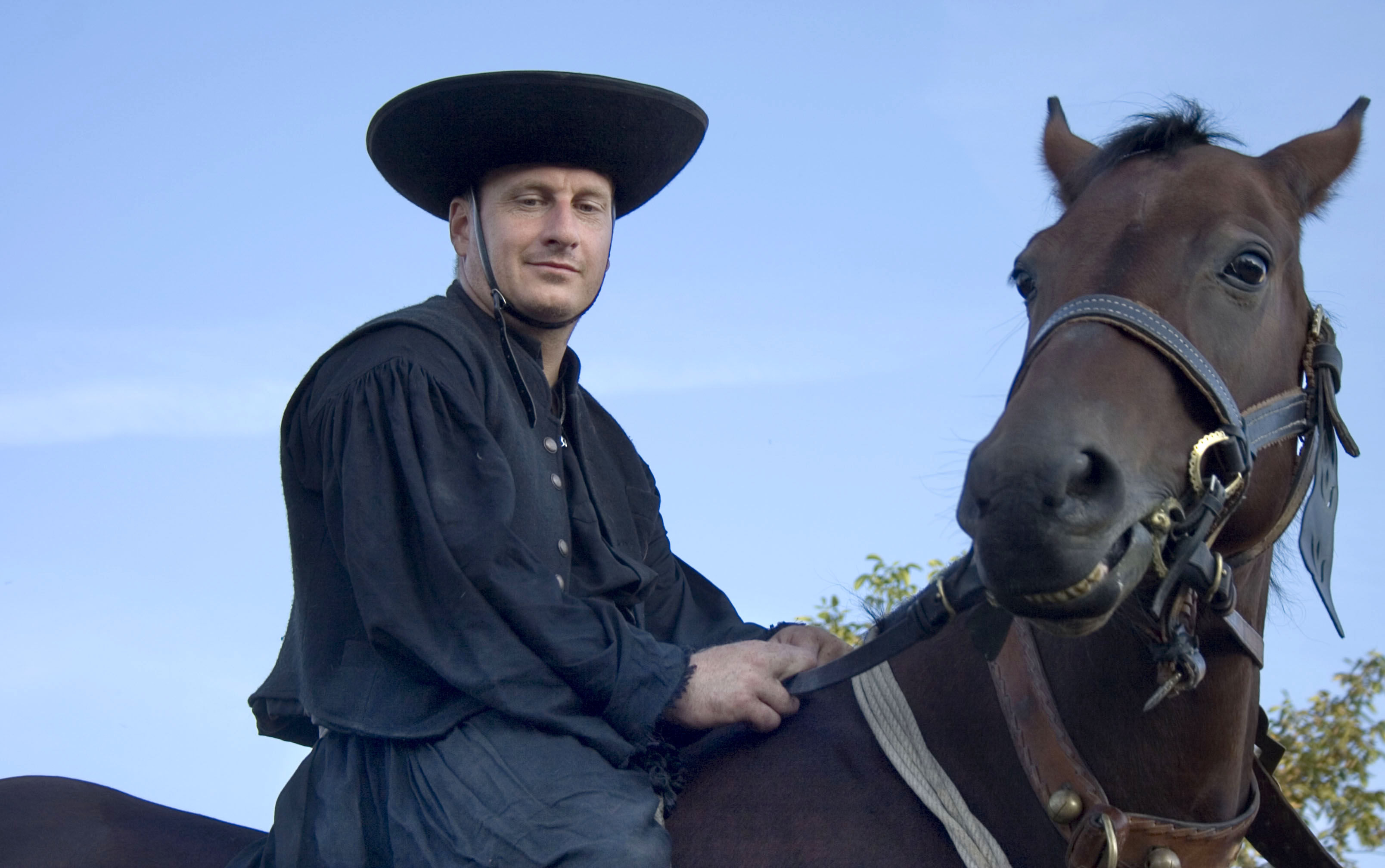 Hungarian folk wrangler - Parade of grapes harves, Kővágóörs, Hungary (2009)